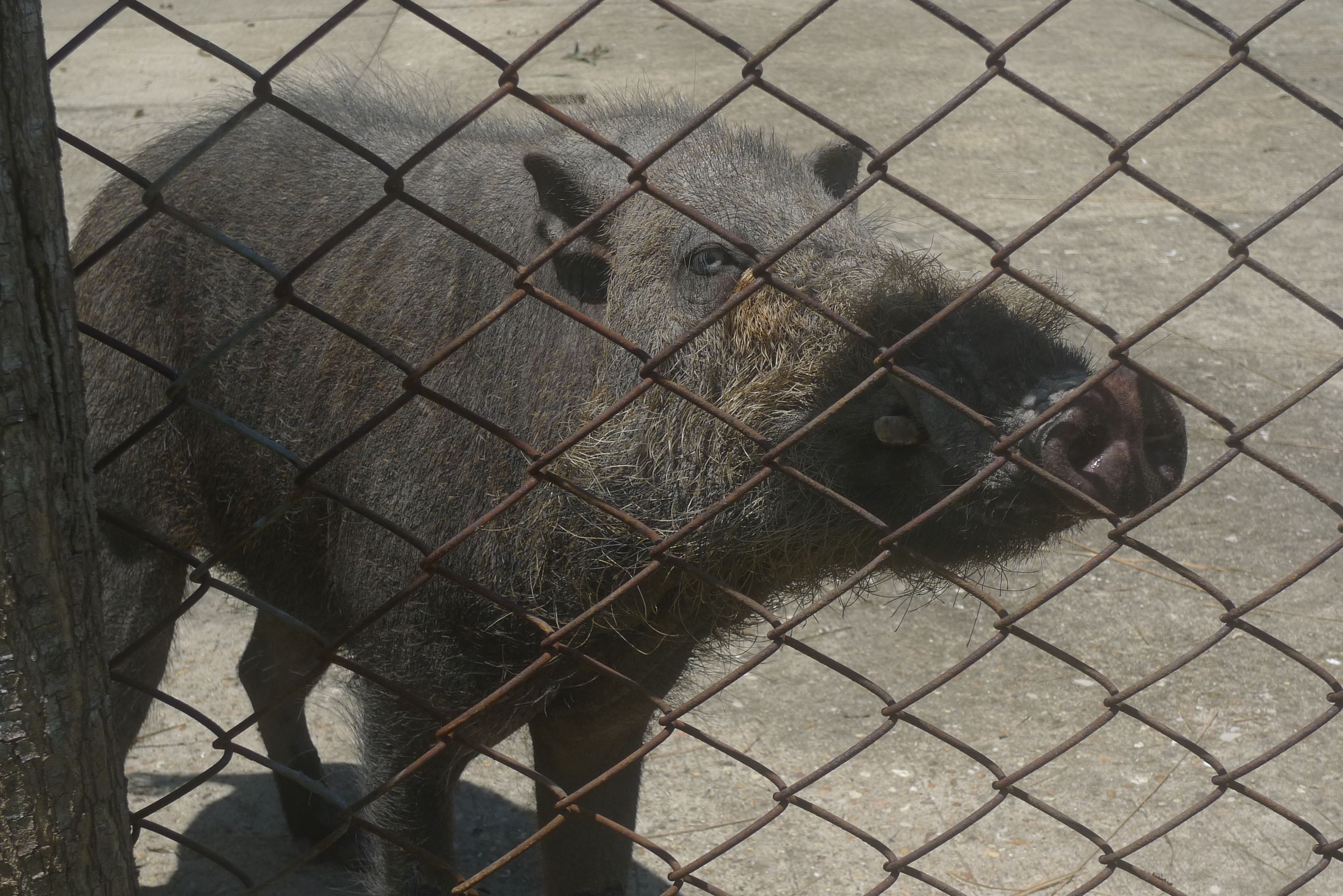 Coron - Calauit Wild Pig